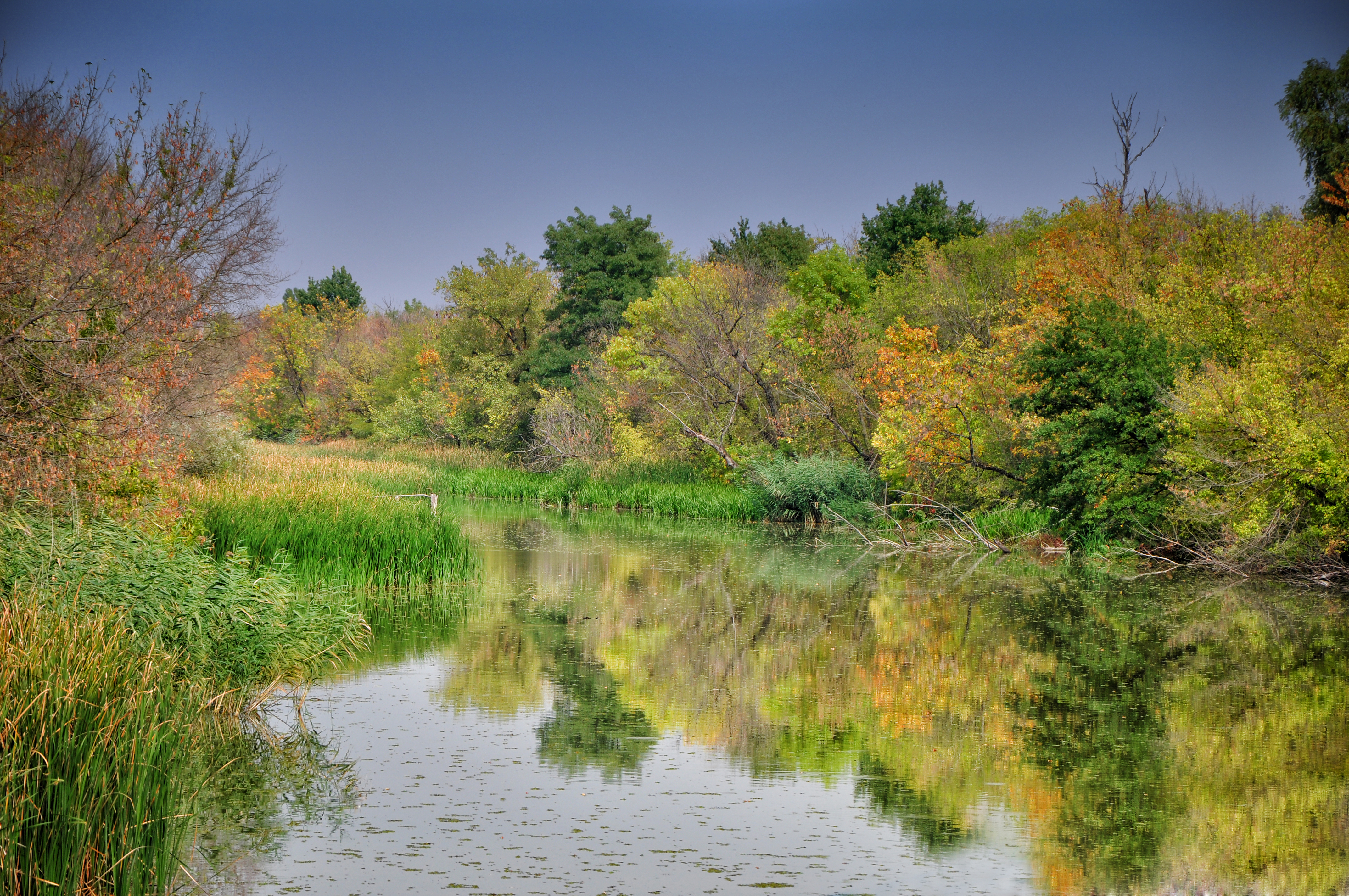 Carska bara is a nature reserve.